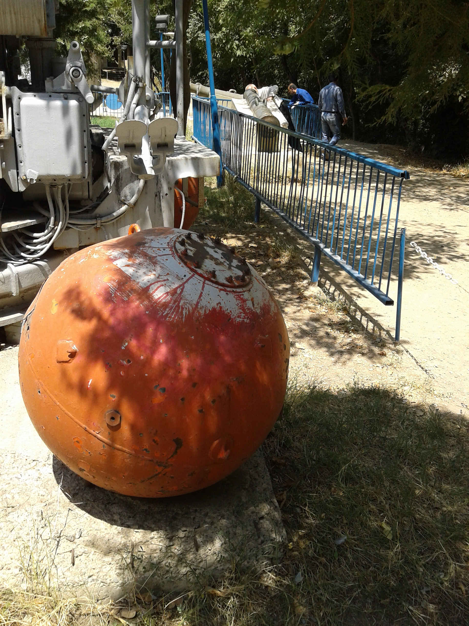 Naval mine, Military Museum, Sa'dabad Palace